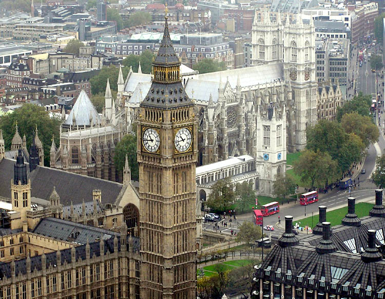 St. Margarets Church, Westminster (with the three red buses in front of it), seen from the London Eye observation wheel. The church, with two blue clock faces showing in this picture, nestles between the Houses of Parliament (foreground) and Westminster Abbey (background). Taken by Adrian Pingstone in November 2004 and released to the public domain.